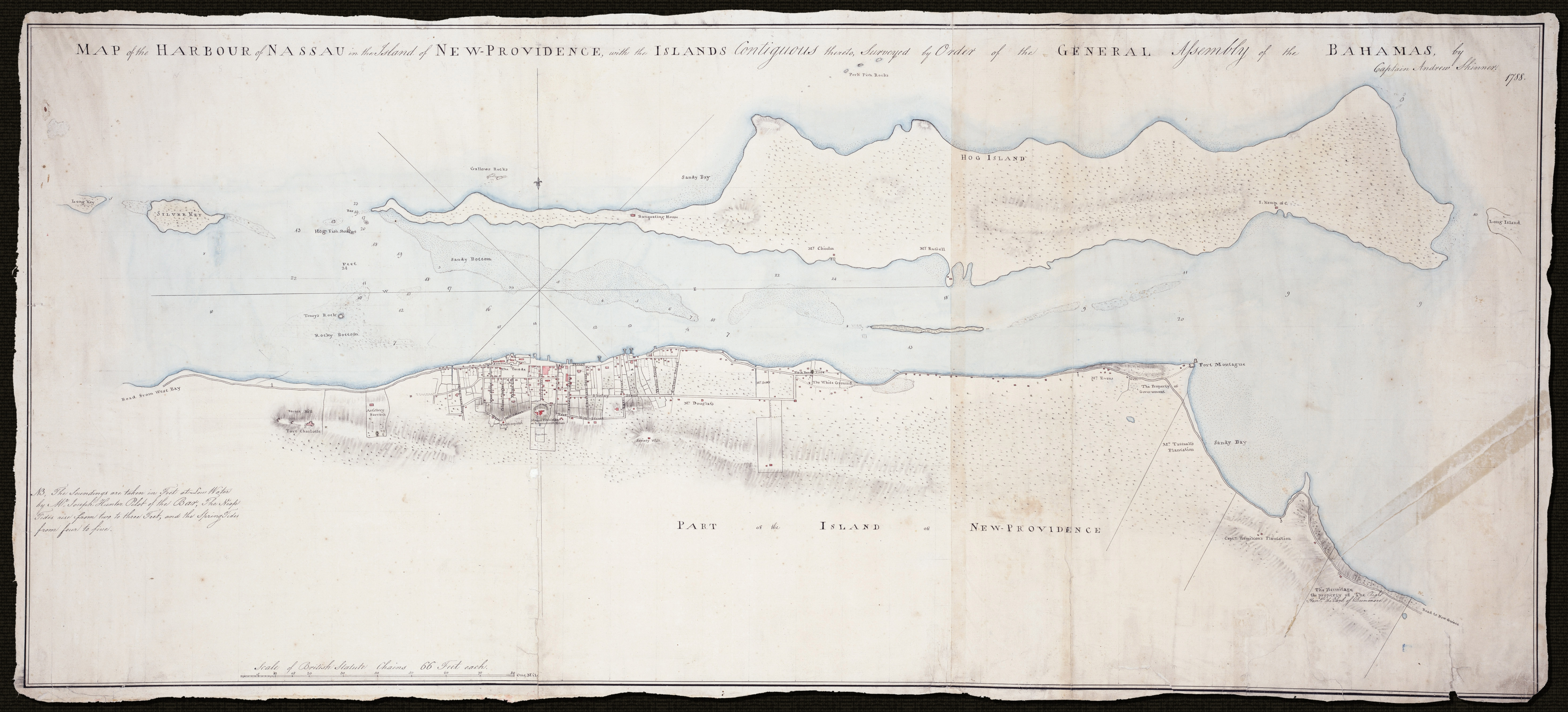 Plan of the Harbour and Town of Nassau in the Island of New Providence